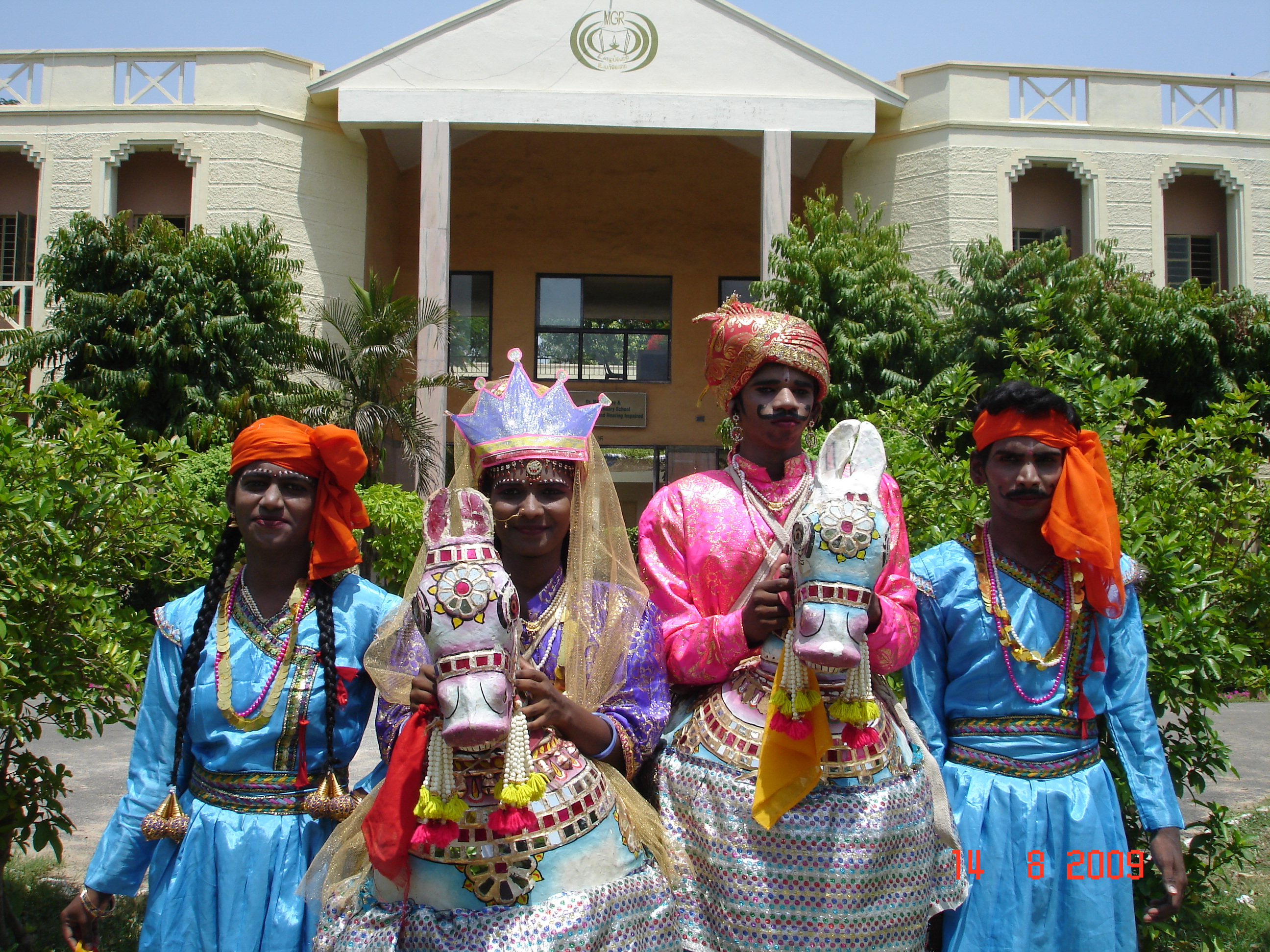 Students of Dr.MGR home and higher secondary school for the Speech and Hearing Impaired, Ramavaram performing poi kal kudirai dance